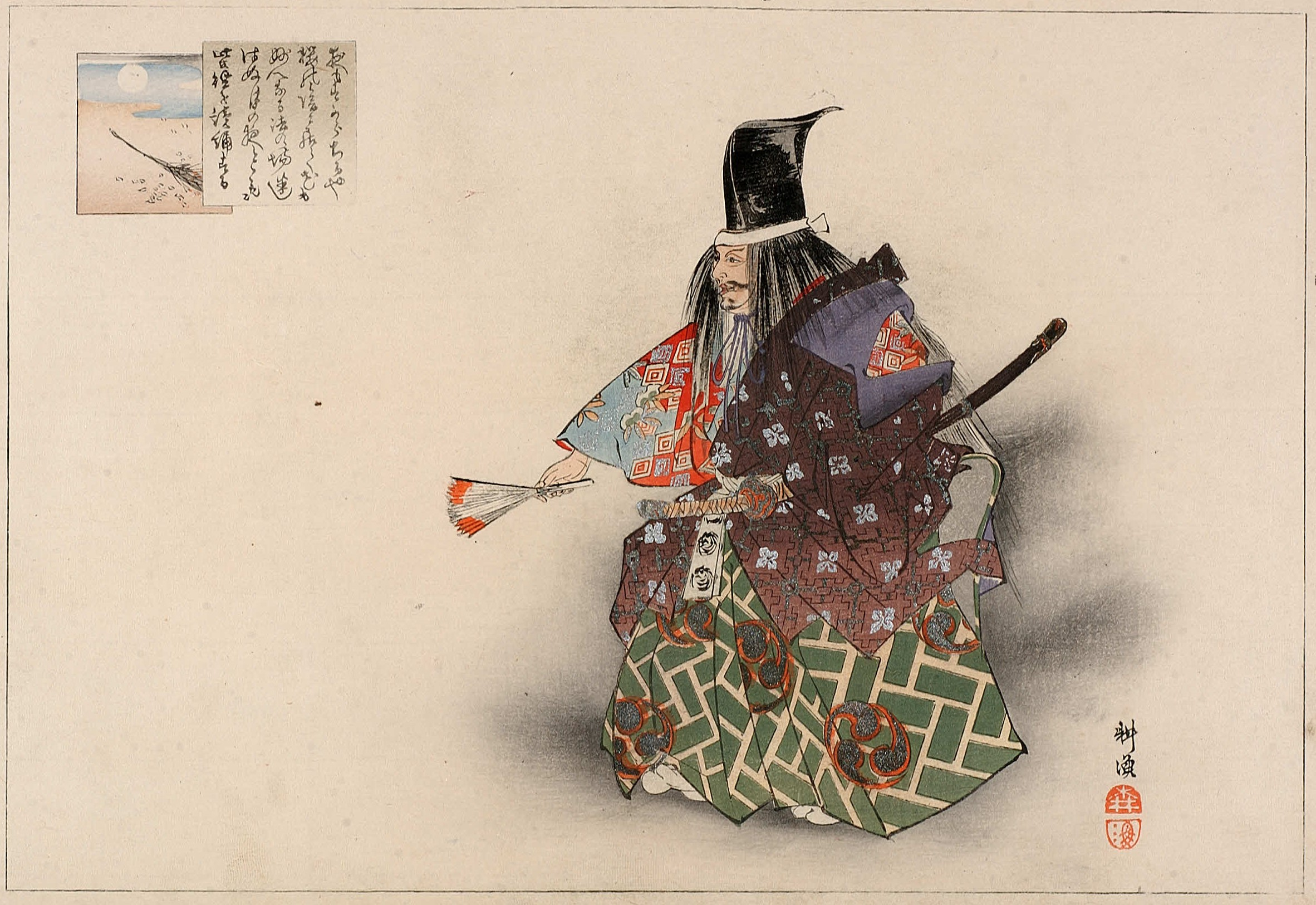 Scene form Nô drama "Tamura"